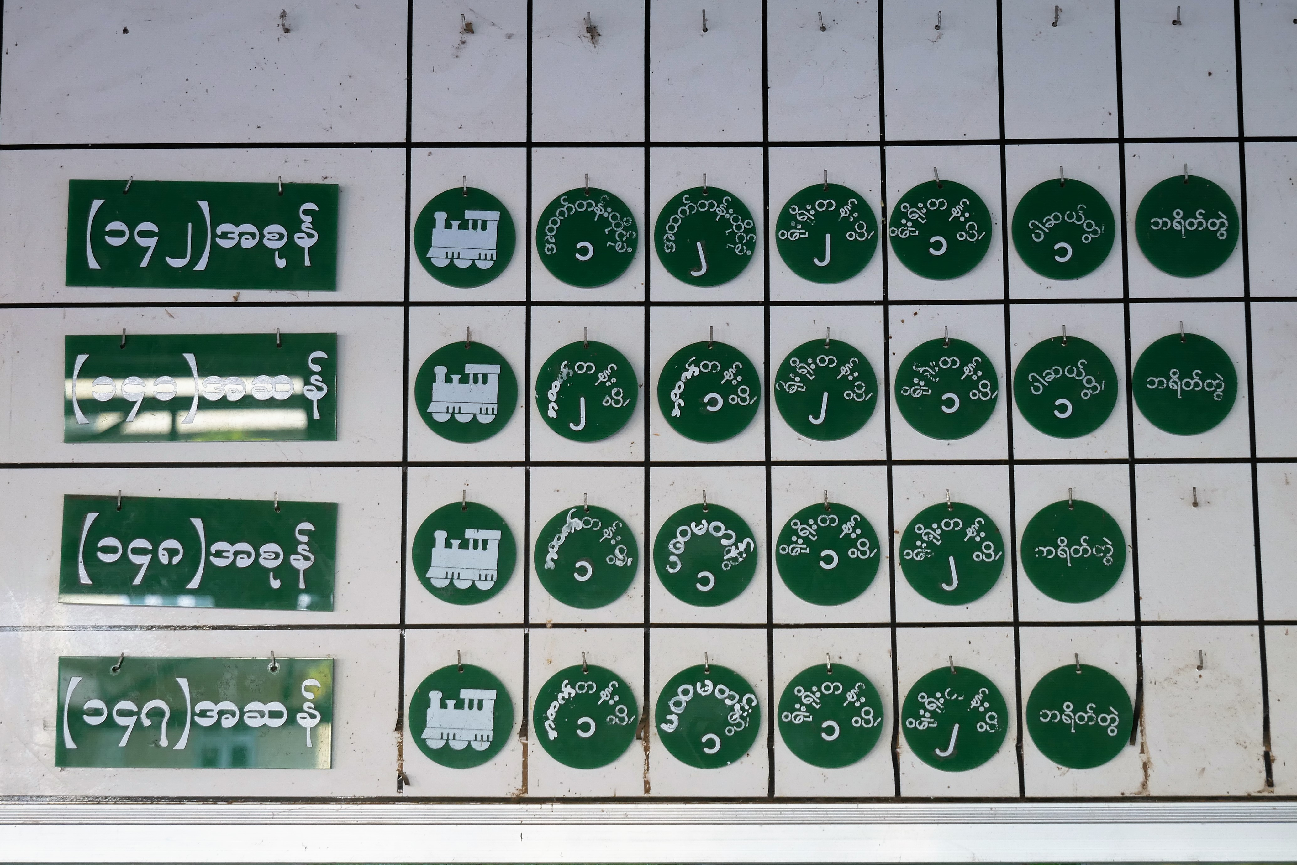 Railway station Kalaw, Myanmar; car locator